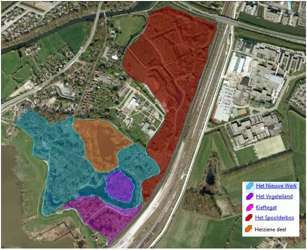 The parts of Het Engelse Werk